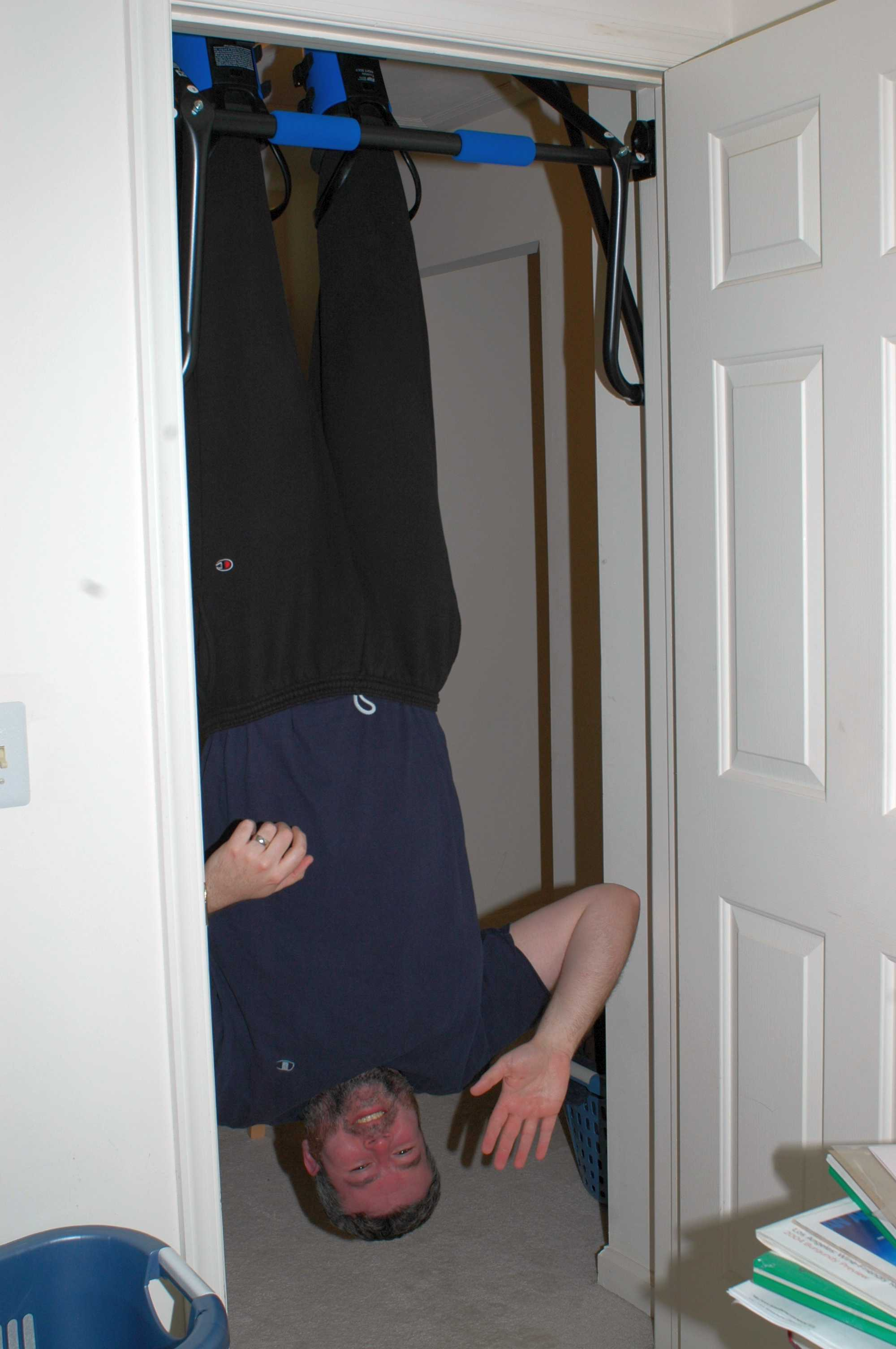 Depiction of exercise boots and wearer.